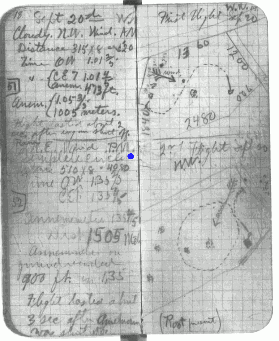 Logbook of Wilbur Wright showing data for first full circle flight.